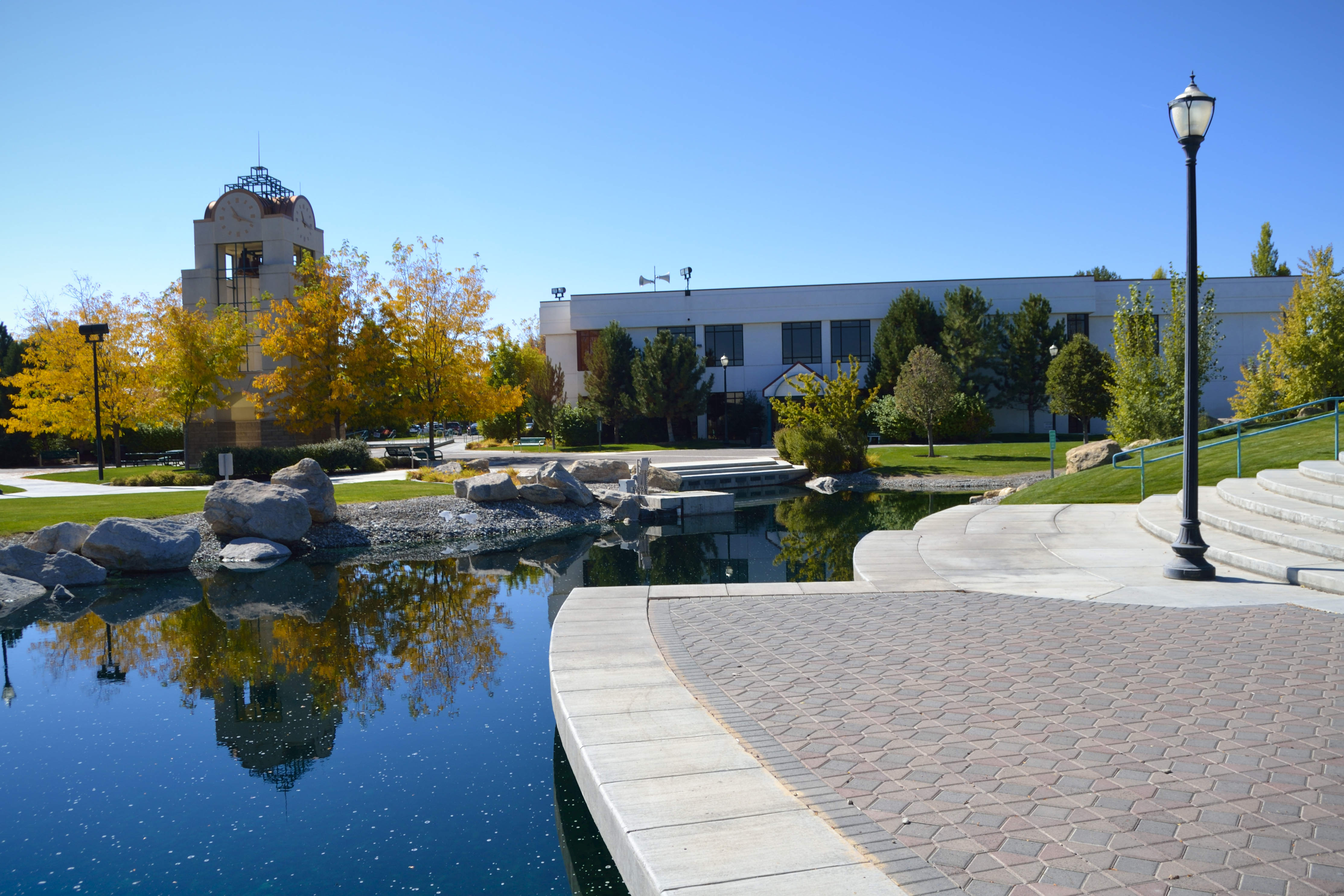 Water feature at Great Basin College, Elko, Nevada